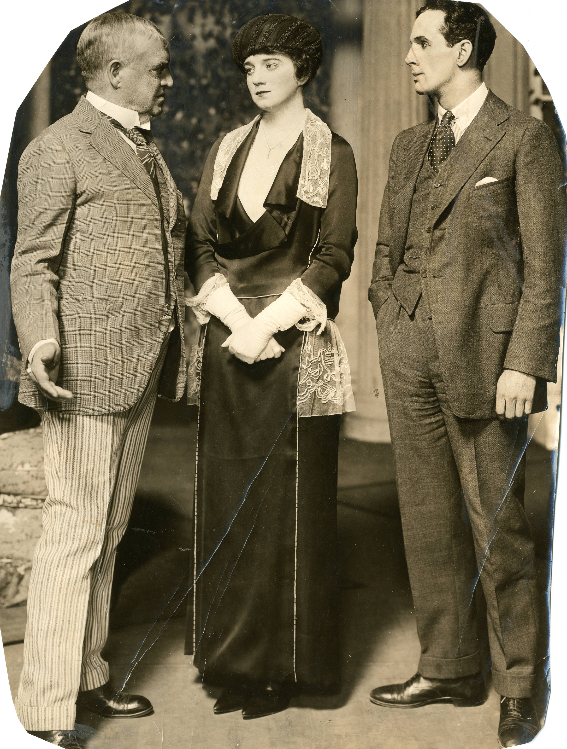 Nat Goodwin and Leonard Mudie in the 1917 play Why Marry. Date stamped Sept. 28, 1918. Subjects: plays, actors